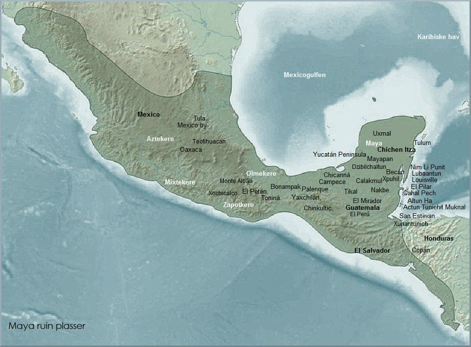 Map of archeological sites of the Maya, and other pre-Columbian Mesoamerican cultures.